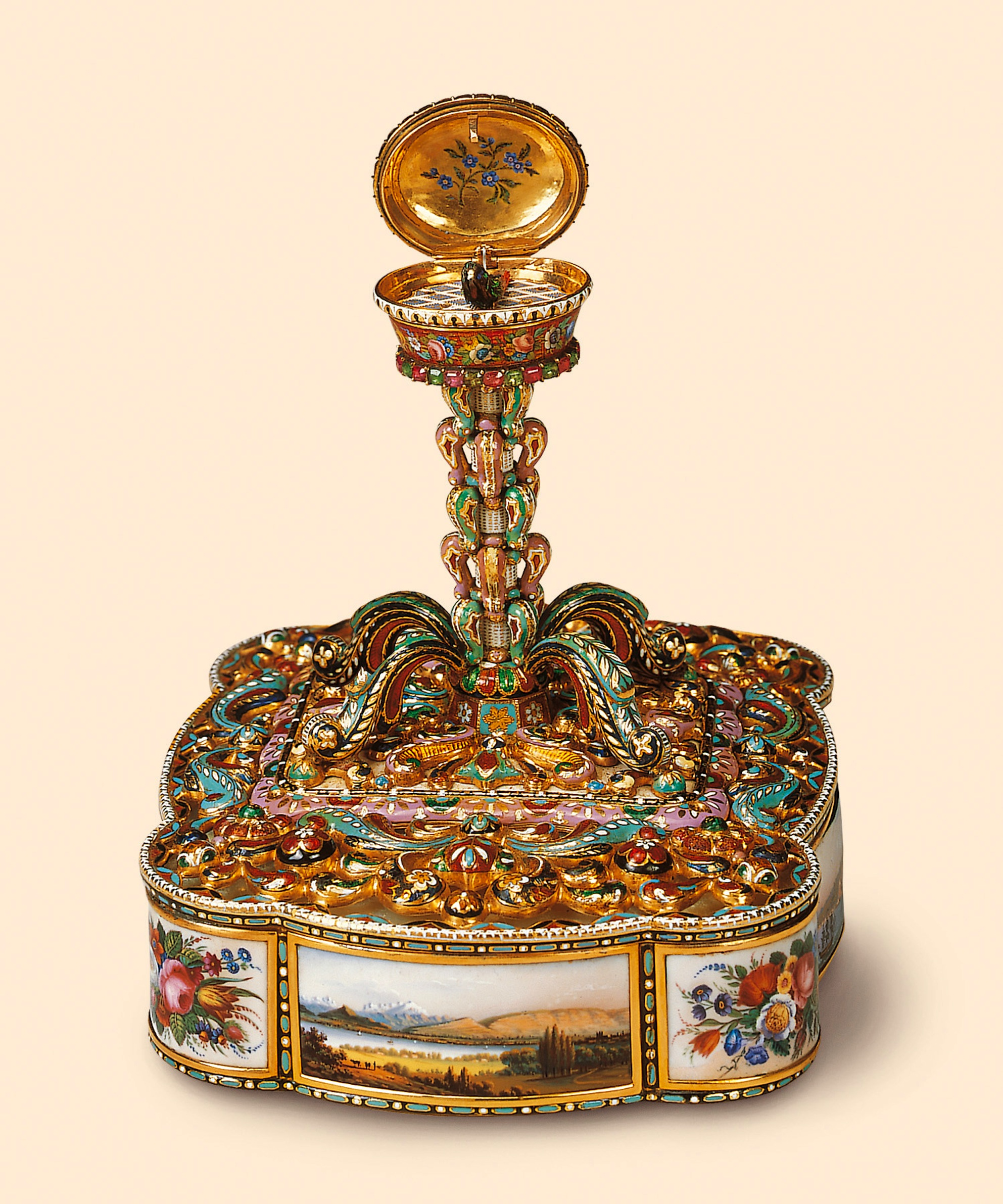 “Views of Switzerland” Charles Abraham Bruguier, Geneva, enamel attributed to Louis Dufaux père, 1840s, made for the Italian market. Exceptional gold, marble, mother-of-pearl and painted on enamel, ruby and emerald-set musical singing bird box in the form of a paperweight. In the shape of a large paperweight, the base panels very finely painted on enamel with landscapes of Lake Leman; Lake Constance, Lausanne, and the Jura, the rounded corners painted with flower bouquets, bordered by black champlevé enamel painted with azure and white accents, the tip and the handle with floral and foliate repoussé gold painted in various colors of enamel, the bird’s nest painted with flowers on a translucent red background over flinqué, ruby- and emerald-paste-set lower border, top border in champlevé enamel, the lid painted with flower bouquets on a white enamel ground with ruby and emerald paste frame. M. 60 x 48 mm, brass, fusee and chain, the bird rotating right and left and moving its beak, tail, and wings, the melody, and circular bellows controlled by a stack of eight spring-loaded cams moving vertically along their arbor for a long duration of song, the shifting facilitated by an L-shaped lever pushing the cams down via a cam set on the extension of the 2nd wheel, fly regulator on a worm-gear with fixed weights on each wing, the movements of the bird are controlled by an unusual and complex mechanism consisting of two fusee-like chains going through the handle. Punched on the movement with three tulips. Dim: Height 115 mm, base 125 x 102 mm.